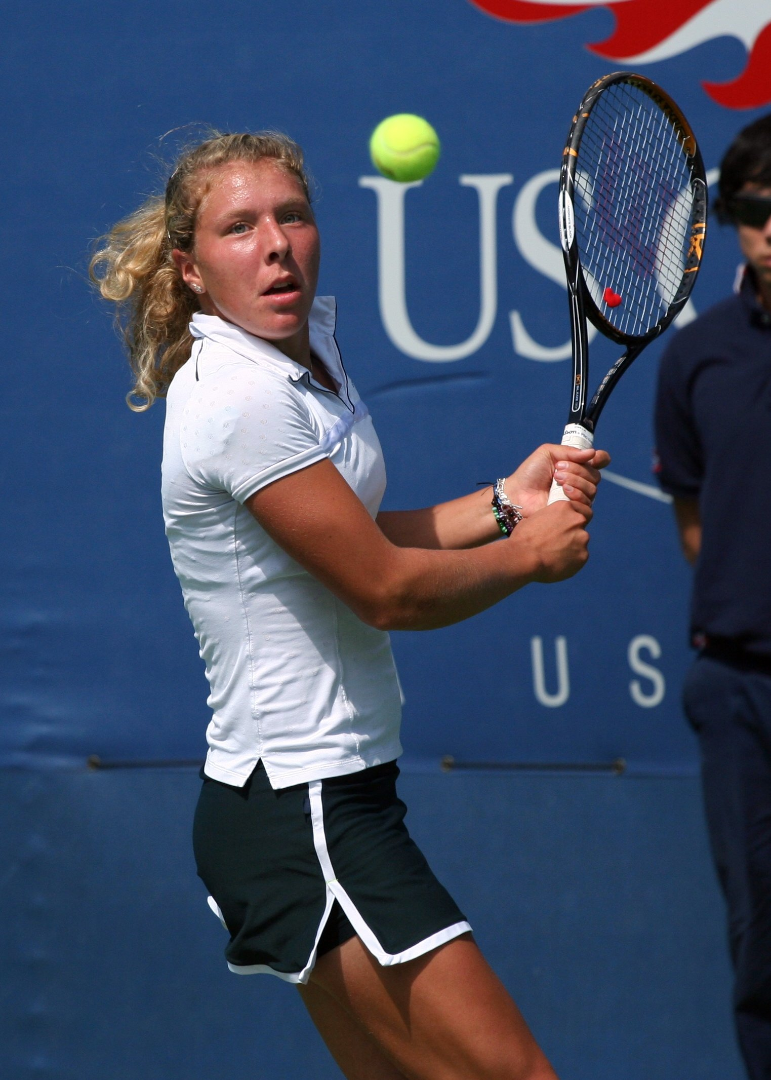 Anna-Lena Friedsam at the US Open - Juniors 2009